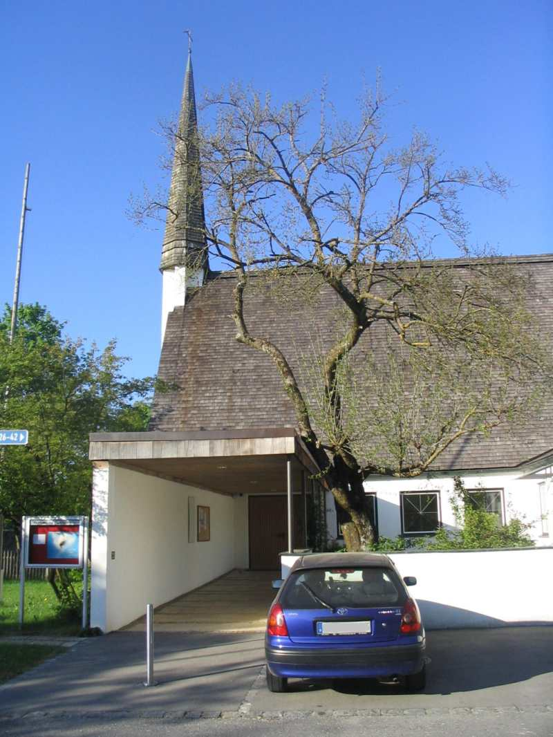 Evang.-Luth. Zachäuskirche Sauerlach, Germany